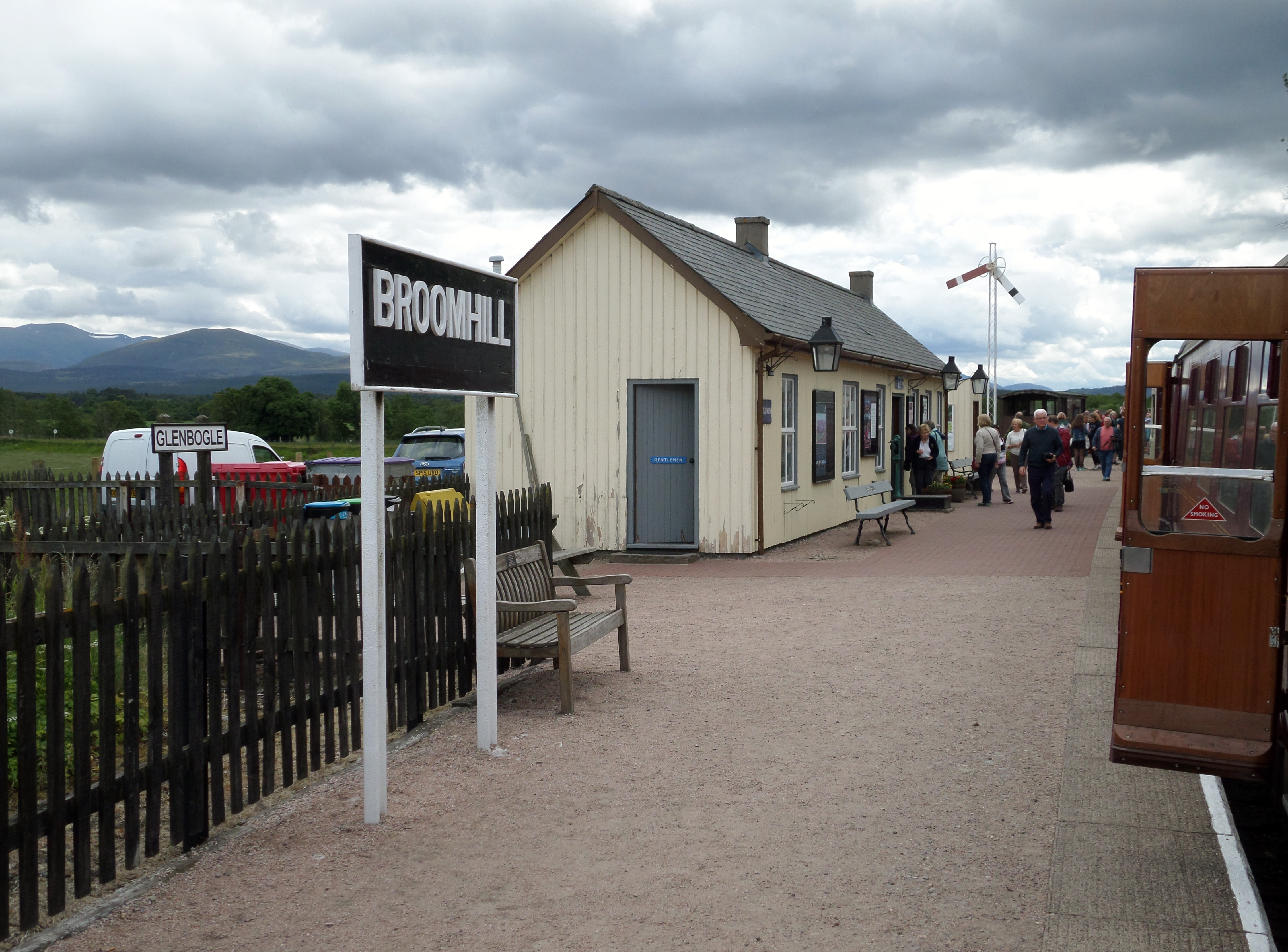 The rebuilt Broomhill railway station on the Strathspey Railway near Nethy Bridge, Strathspey, Scotland.